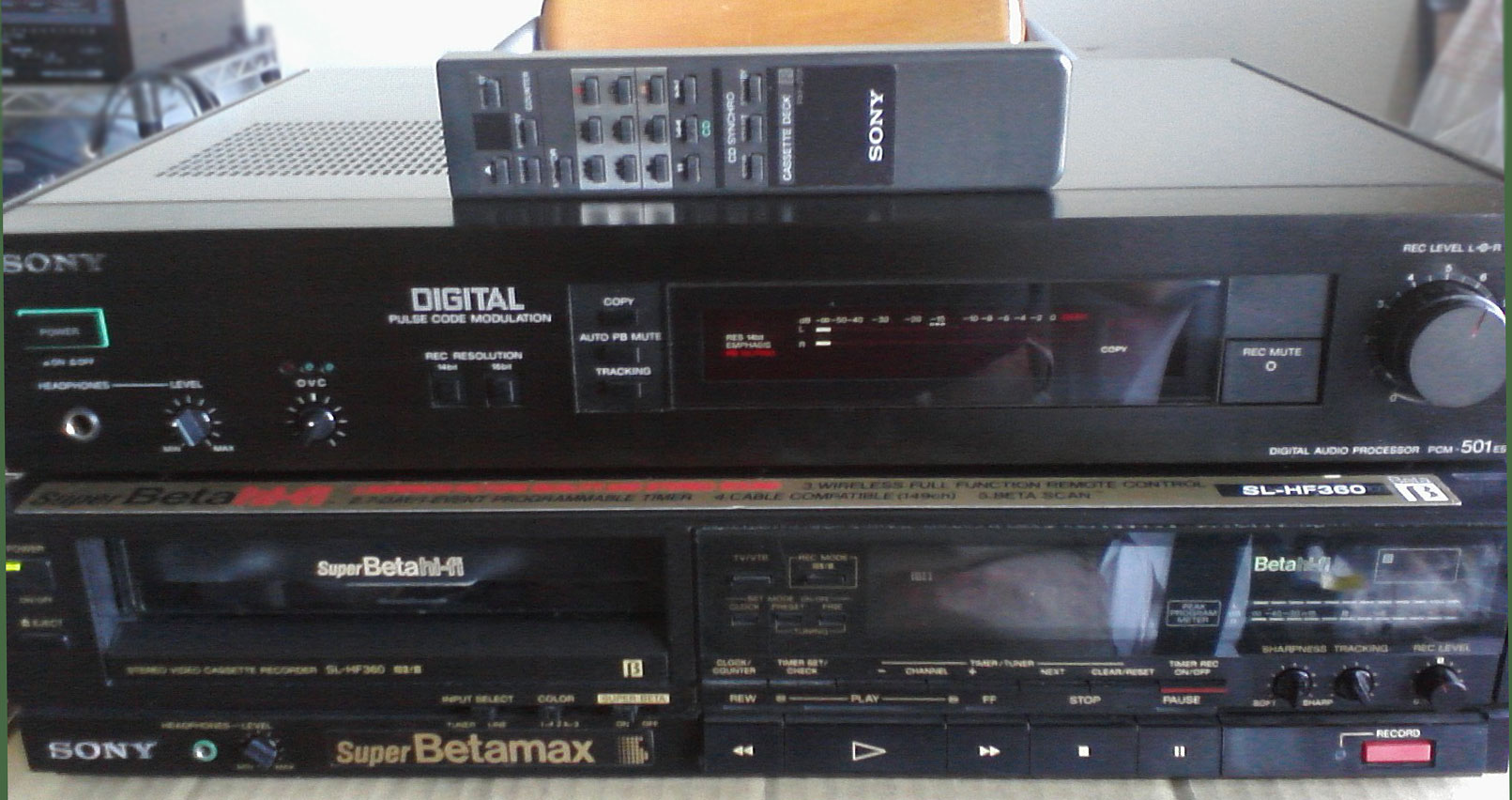 A Sony PCM-501ES EIAJ LPCM stereo audio adapter/transcoder stacked on a Sony SL-HF360 Super Betamax videocassette recorder. The VTR remote is on top of the 501.